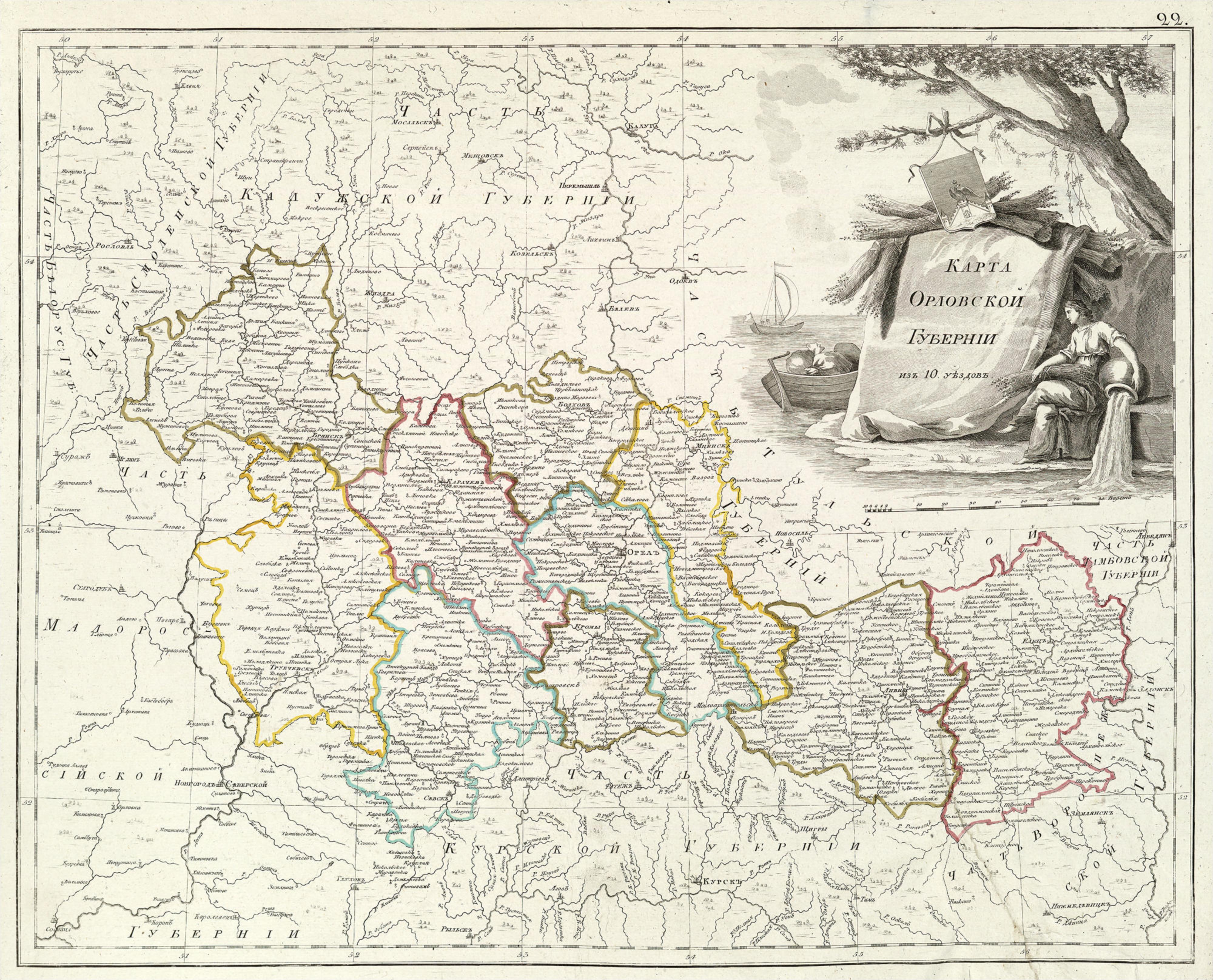 Atlas of Russian Empire. 1800 year. List 22. Orlovskaya Province from 10 uyezds